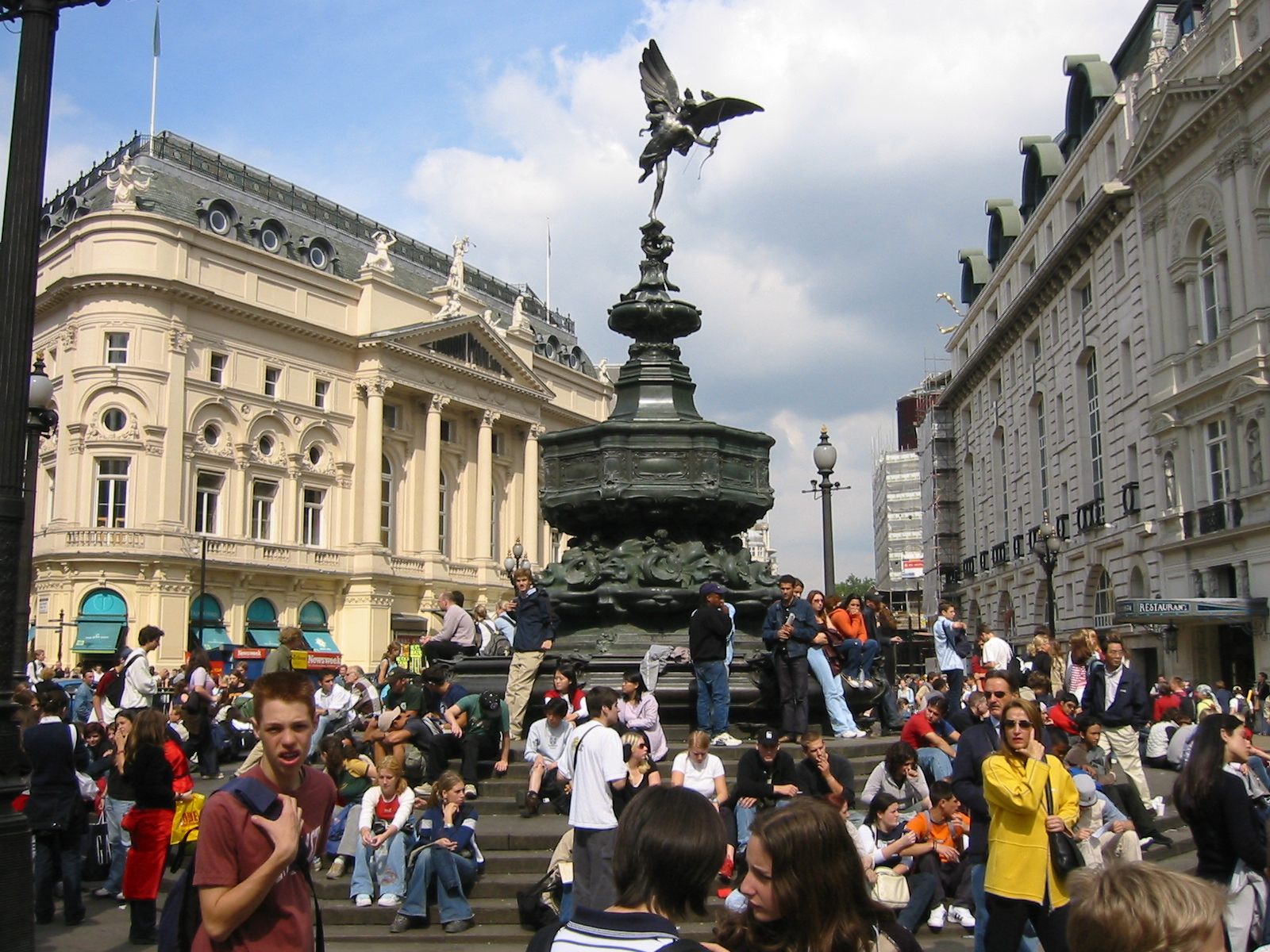 Shaftesbury Memorial and the Statue of Anteros at Piccadilly Circus